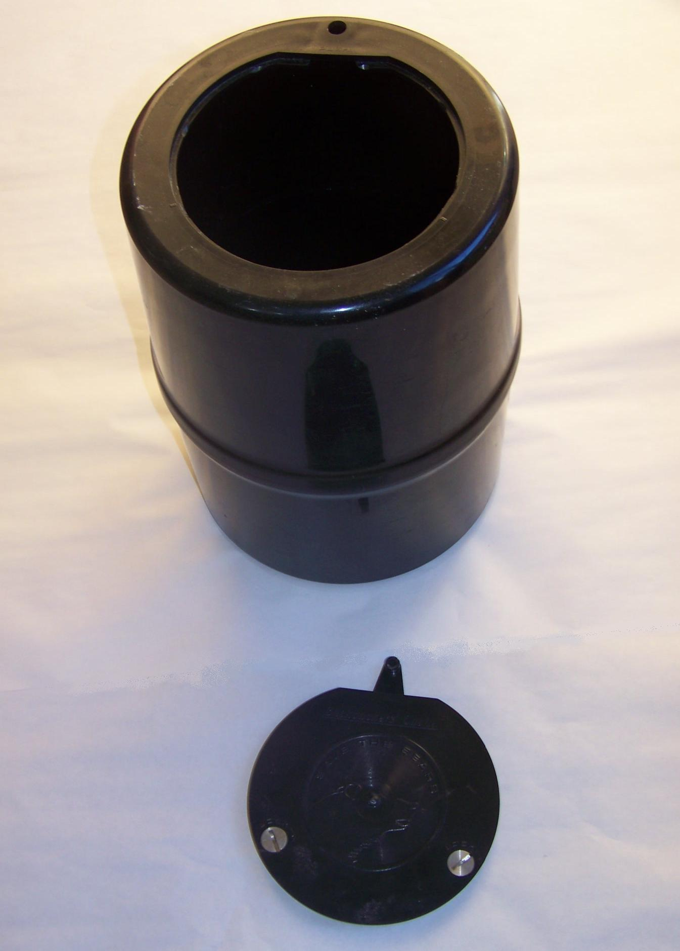 Photo of bear resistant food storage canister with lid removed. Lid can be locked into place using a coin, a key or any similar object.